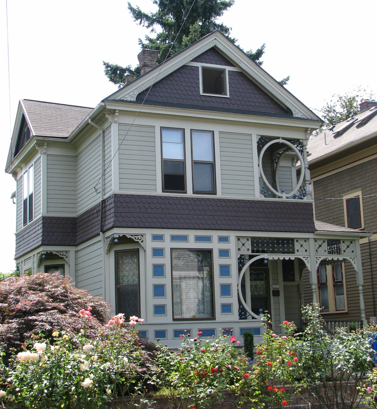 The historic John E. G. Povey House (built 1891), located at 1312 Northeast Tillamook Street in Portland, Oregon, United States, is listed on the US National Register of Historic Places.